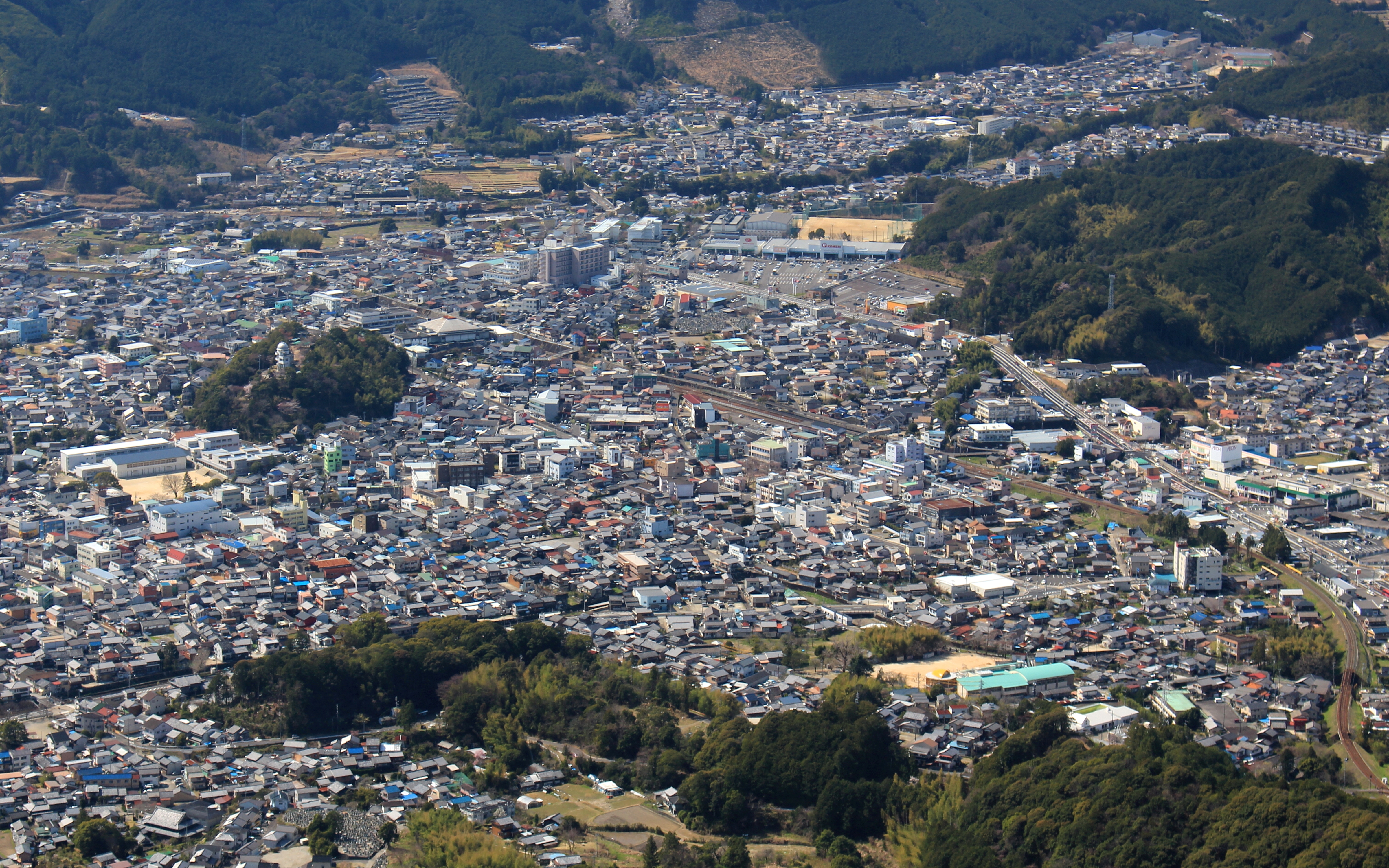 Center of Owase city seen around Owase station from Mount Tengura, in Mie prefecture, Japan.